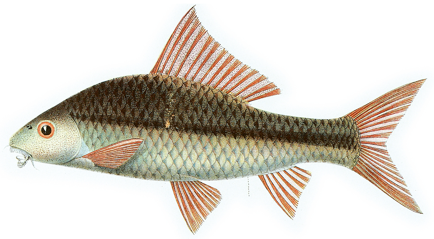 Osteochilus microcephalus, identified in original publication as Rohita (Rohita) microcephalus